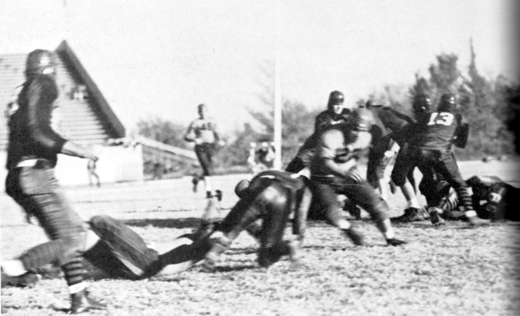 The 1936 Red Raiders football team in action against Oklahoma A&M